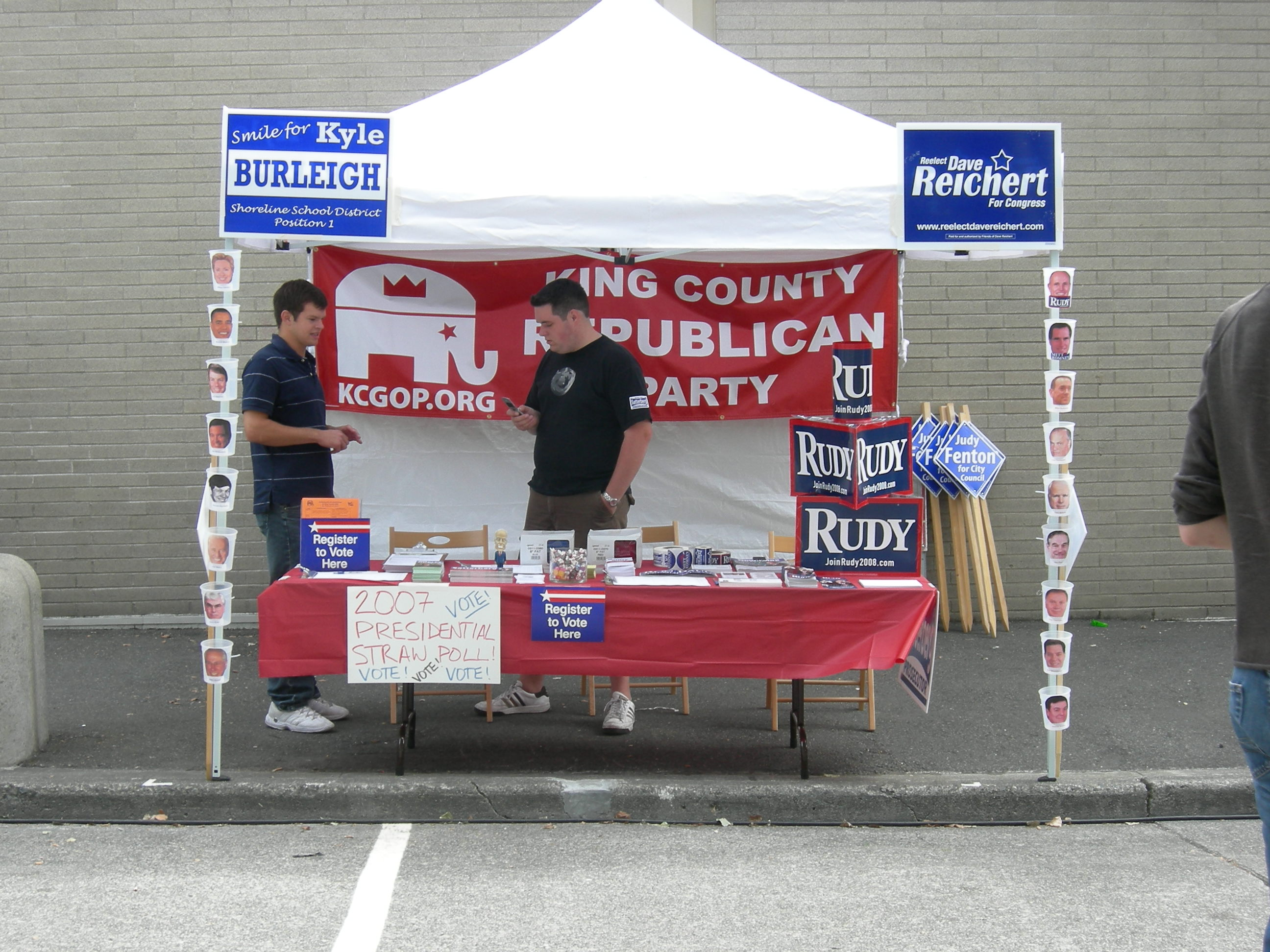 Washington State Republican Party booth at Bumbershoot, a music and arts festival held every Labor Day at Seattle Center, Seattle, Washington.